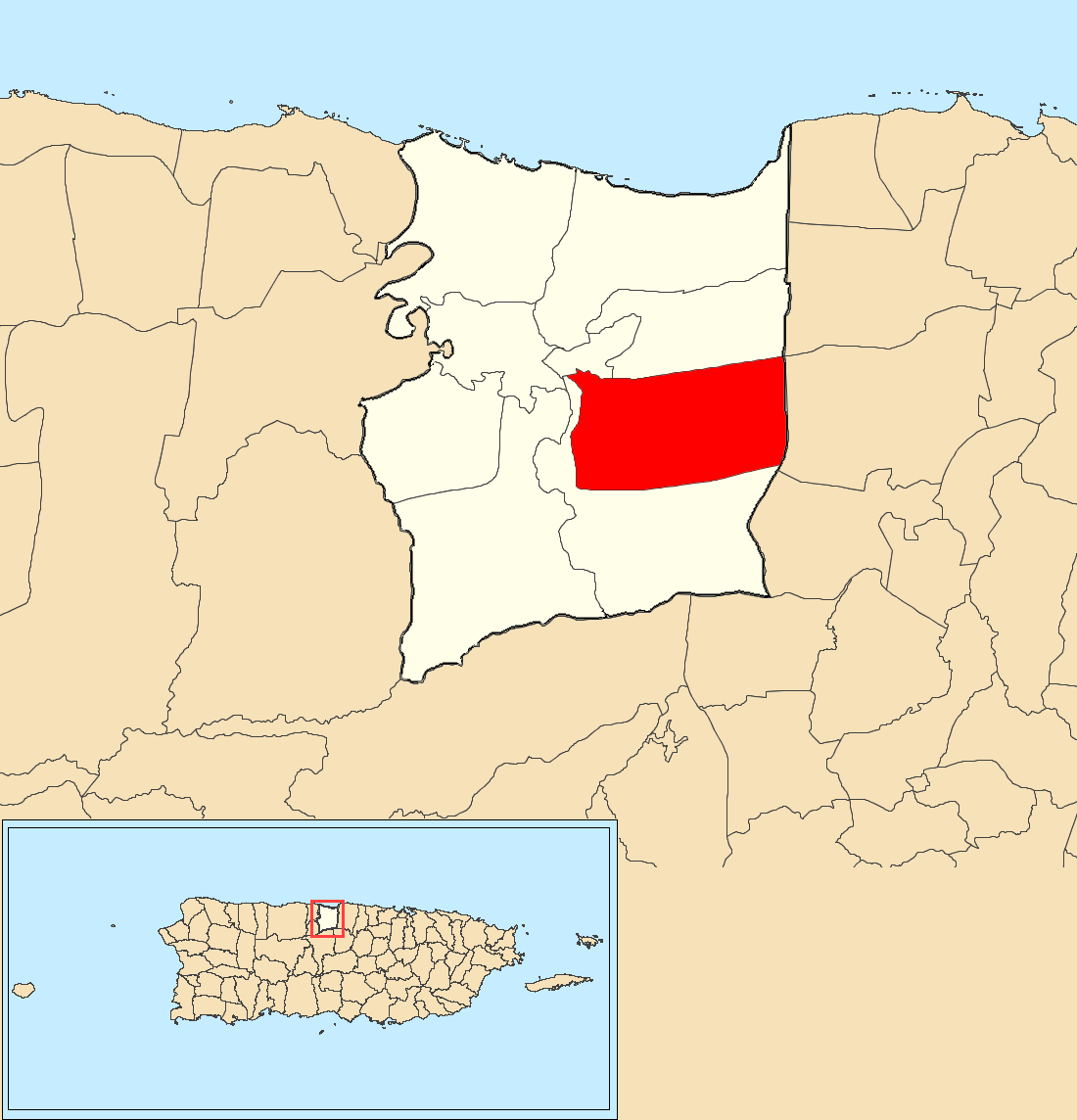 Locator map for barrio in Manatí, Puerto Rico